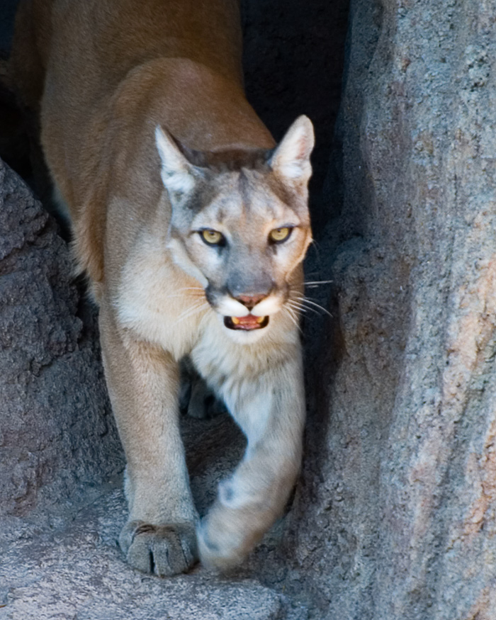 Puma concolor shot at the Arizona-Sonora Desert Museum